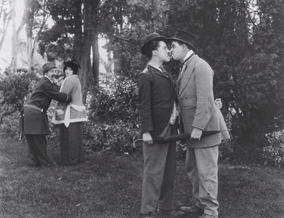 Film still showing actors Charles Chaplin, Chester Conklin, Emma Clifton and Ford Sterling.